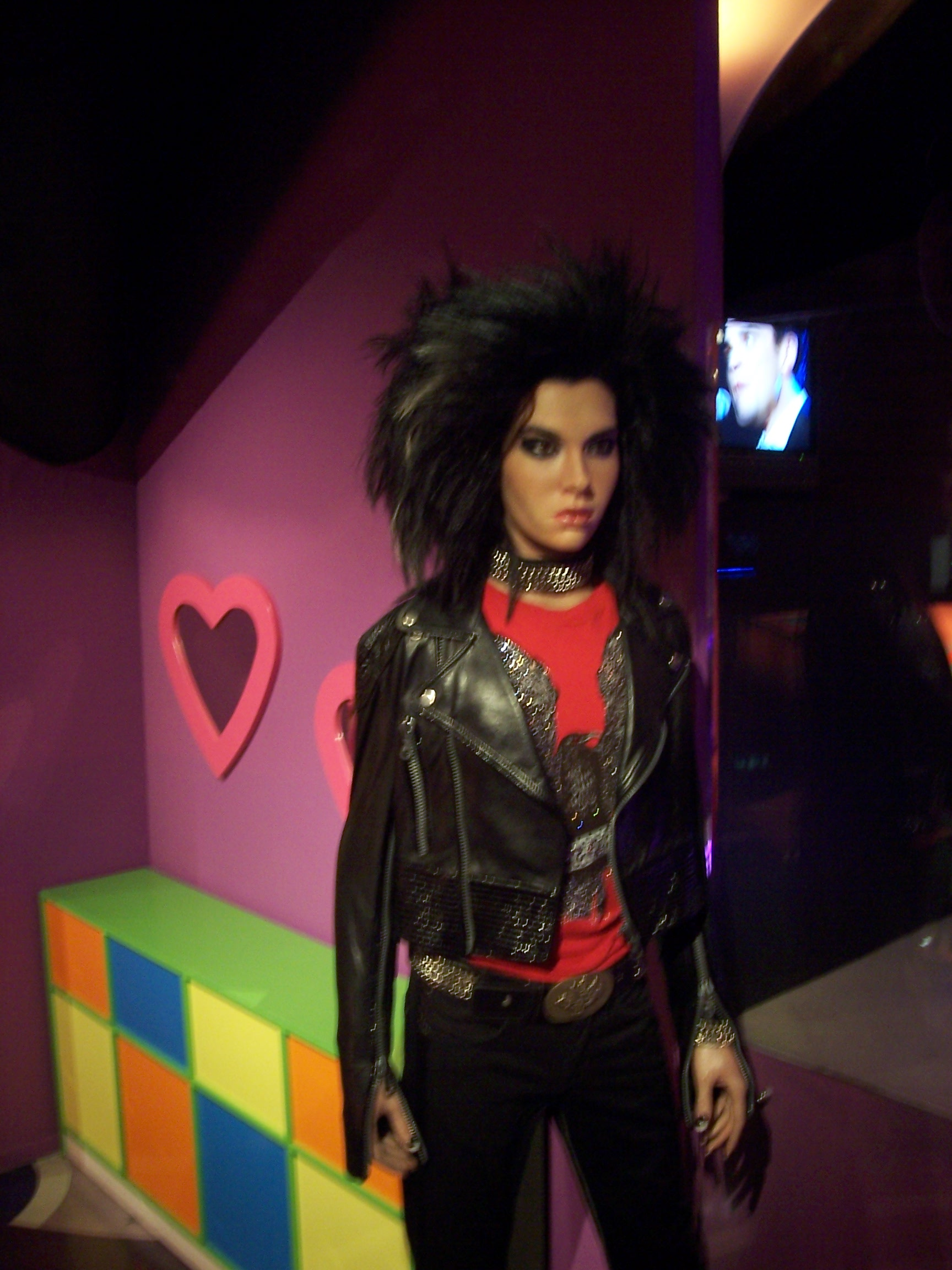 Singer Bill Kaulitz From Tokio Hotel In Madame Tussaud Wax Museum, Amsterdam